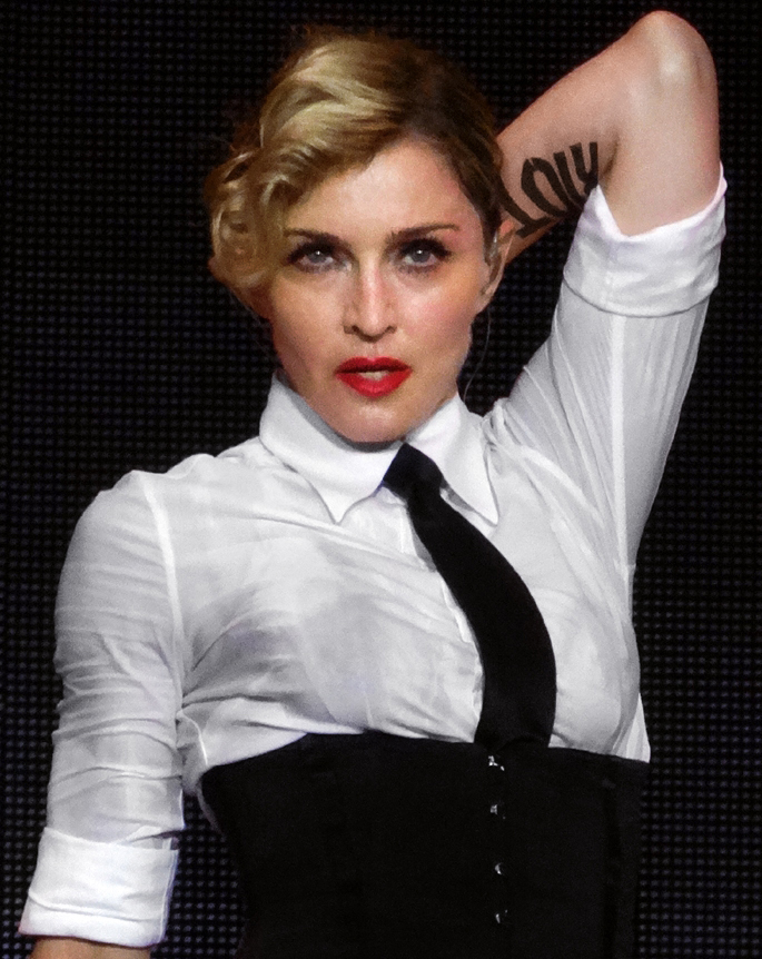 Madonna during her concert in Nice as part of her MDNA Tour on August 21, 2012.